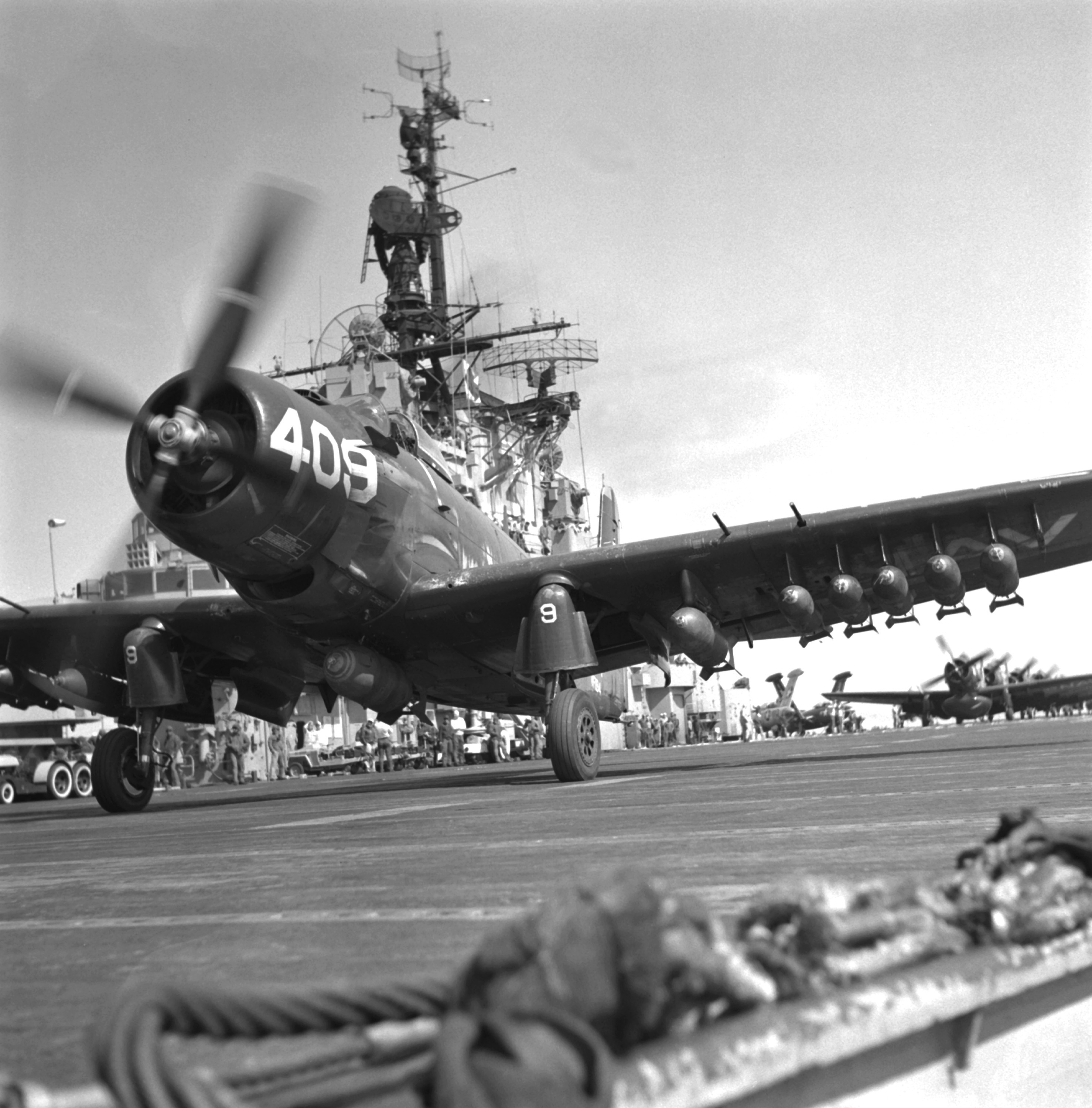 A U.S. Navy Douglas AD-4NA Skyraider of fighter squadron VF-194 Main Battery taking off from the aircraft carrier USS Boxer (CVA-21) on 1 June 1953. VF-194 was deployed as part of Air Task Group One (ATG-1) aboard the Boxer to Korea from 30 March to 28 November 1953. The squadron was re-designated VA-196 on 4 May 1955.